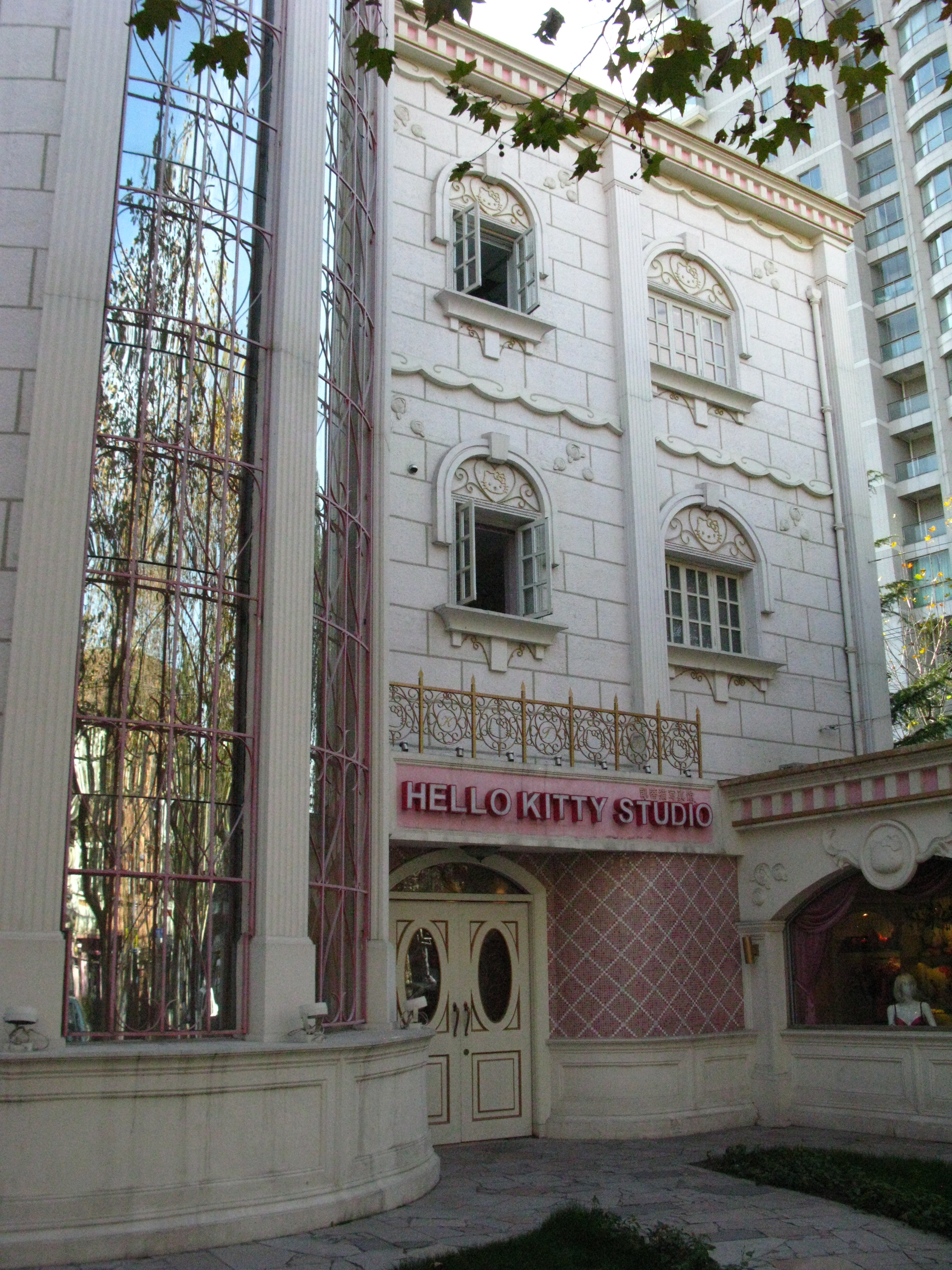 Formerly beautiful European style house on Xinhua Road, now converted into Hello Kitty Center!